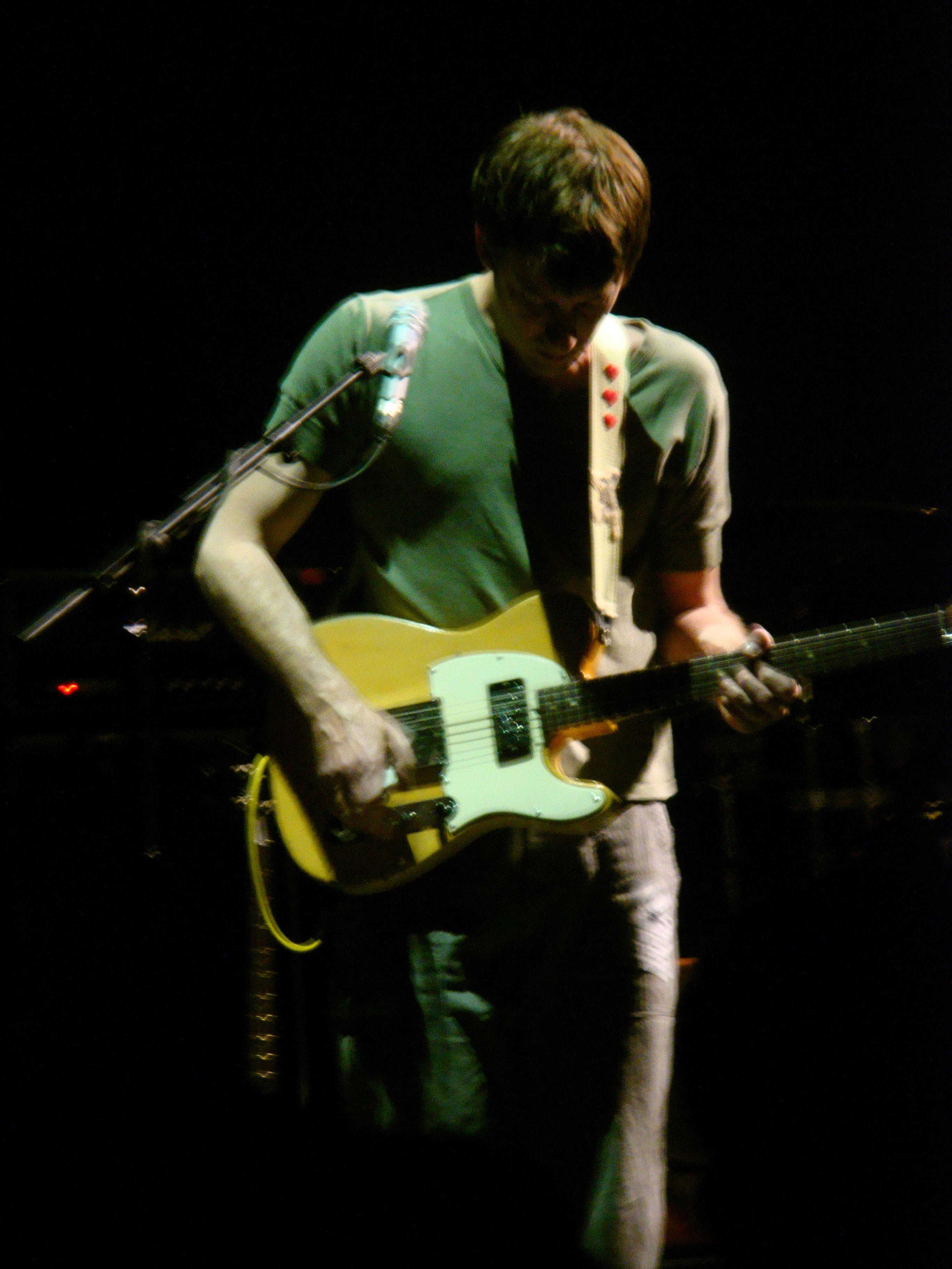 graham coxon